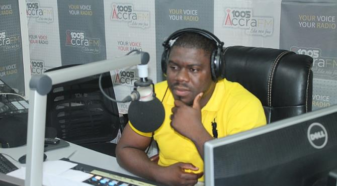 online dj